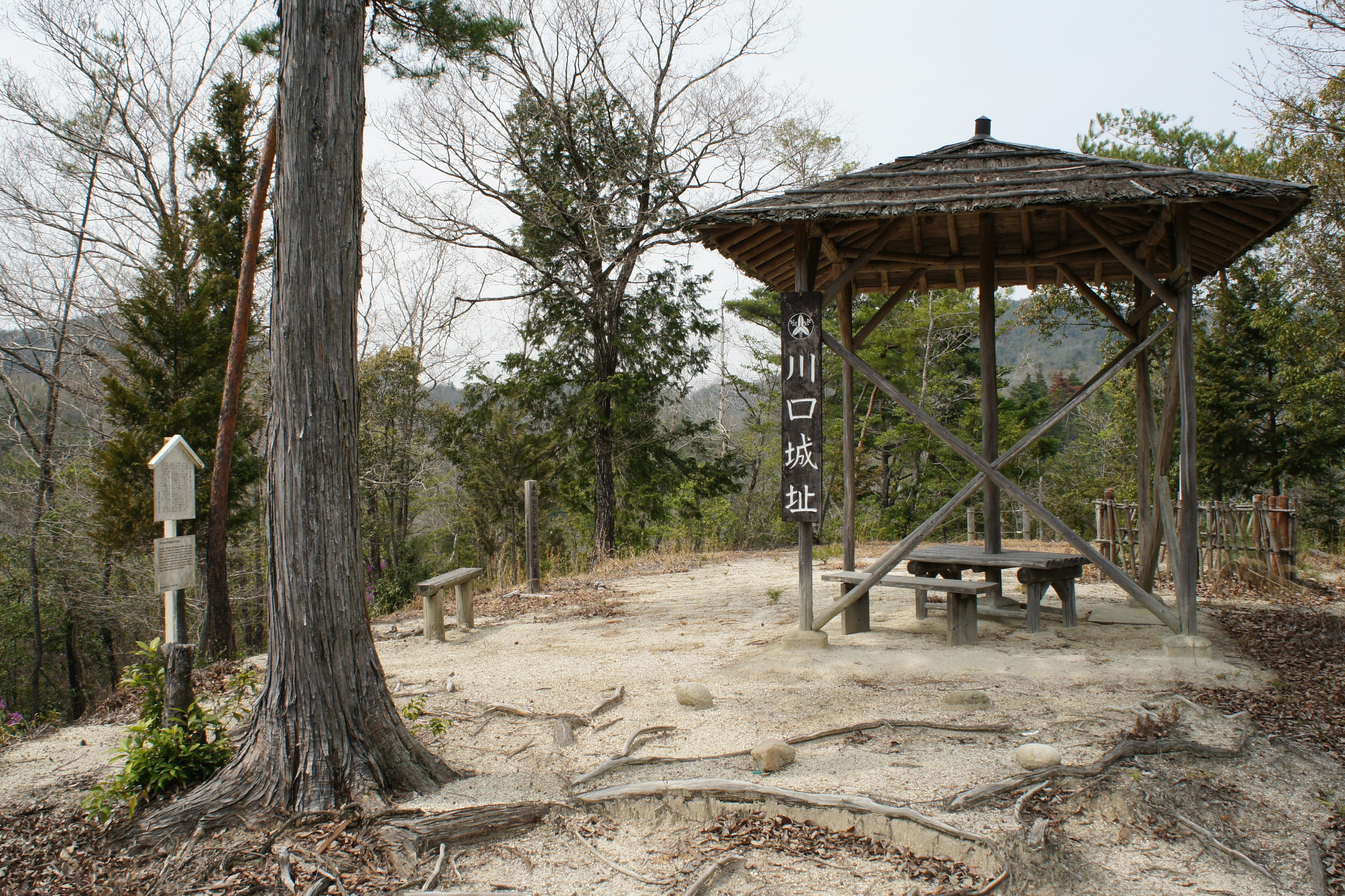 Kawaguchi Castle, Toyota, Aichi, Japan